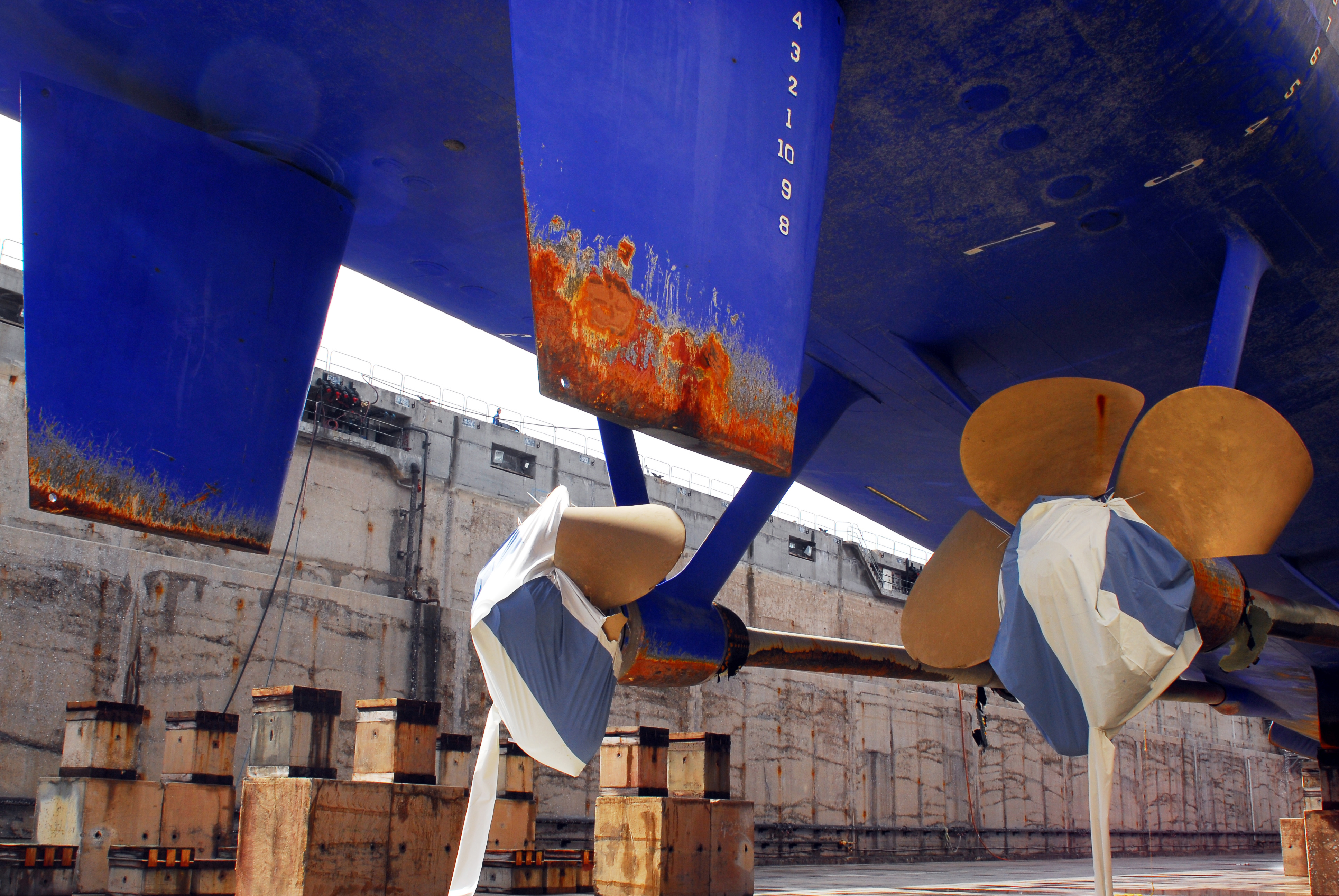 090219-N-4003L-002 PEARL HARBOR (Feb. 19, 2009) The guided-missile cruiser USS Port Royal (CG 73) sits in drydock at the Pearl Harbor Naval Shipyard as it is readied for repairs following the Feb. 5 grounding about a half-mile south of Honolulu Airport. An assessment of the ship and the repair efforts needed are ongoing. The ship entered drydock Feb. 18. (U.S. Navy photo by Michael F. Laley/Released)